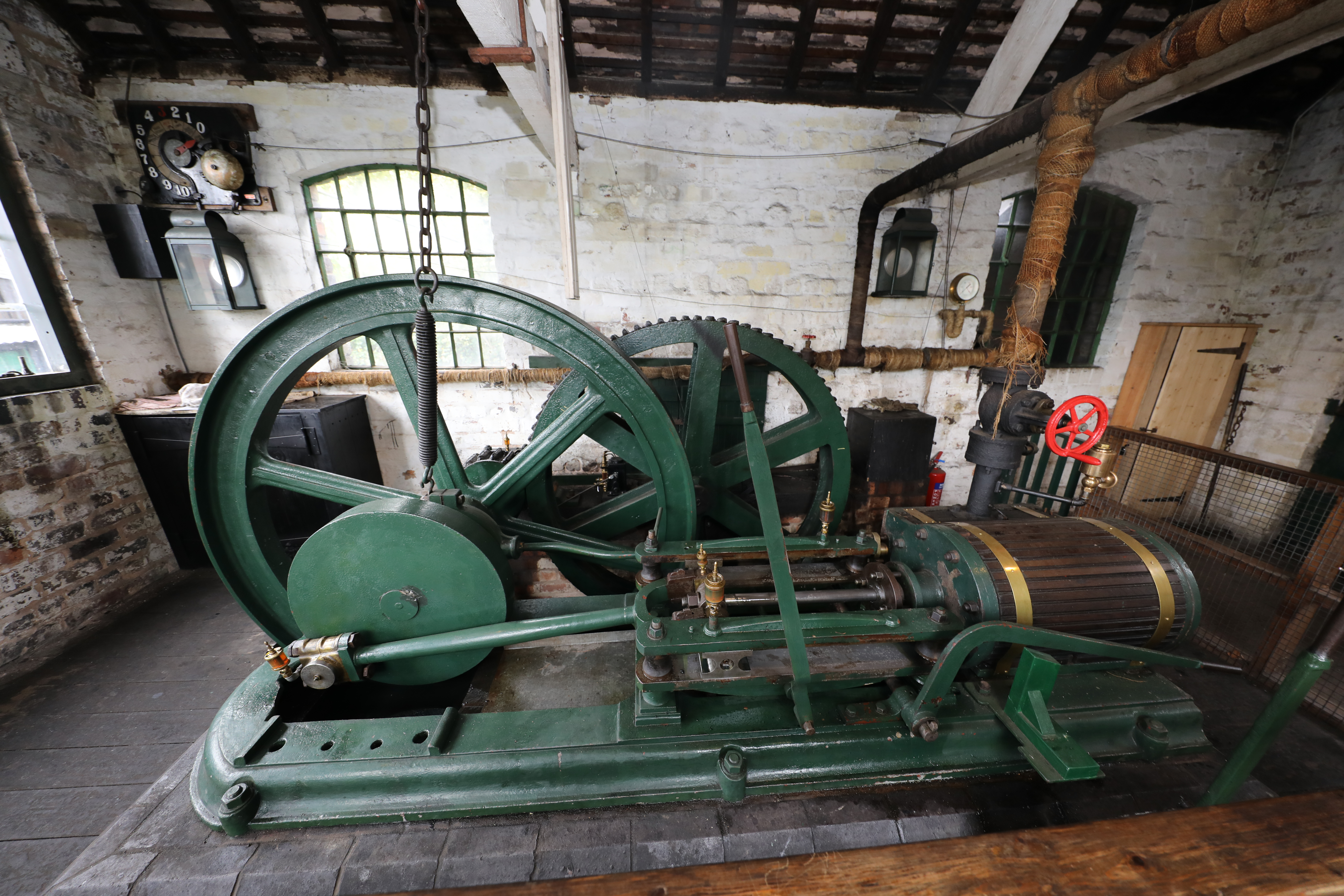 Photo of the Racecourse Colliery winding engine at the black country living museum.